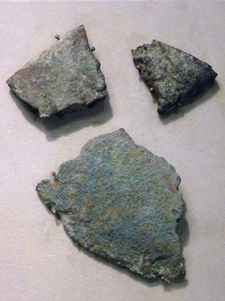 Three bronze pieces, coins of the Warring States period.